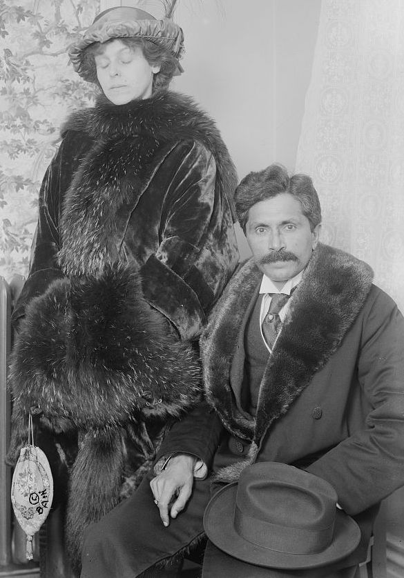 Mirza Ali Kuli Khan and wife in New York City on March 14, 1914